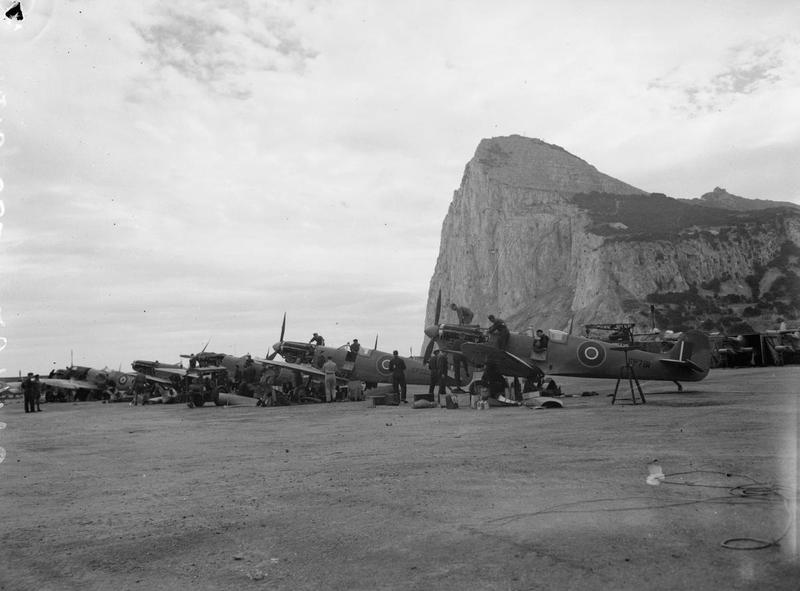 IWM caption : Airmen of the Special Erection Party fitting the engines to Supermarine Spitfire Mark Vs during assembly at North Front, Gibraltar. Behind them can be seen the fuselages of Hawker Hurricanes sheltered in their packing crates. The Special Erection Party was established at Gibraltar in July 1942 to assemble and test fly aircraft crated from Britain by sea for the reinforcement of Malta. They are seen here working on a shipment of 70 Spitfires and 27 Hurricanes which arrived by sea on 15 September 1942 and which were built, test-flown and dispersed to vacant areas of the station in 11 days.